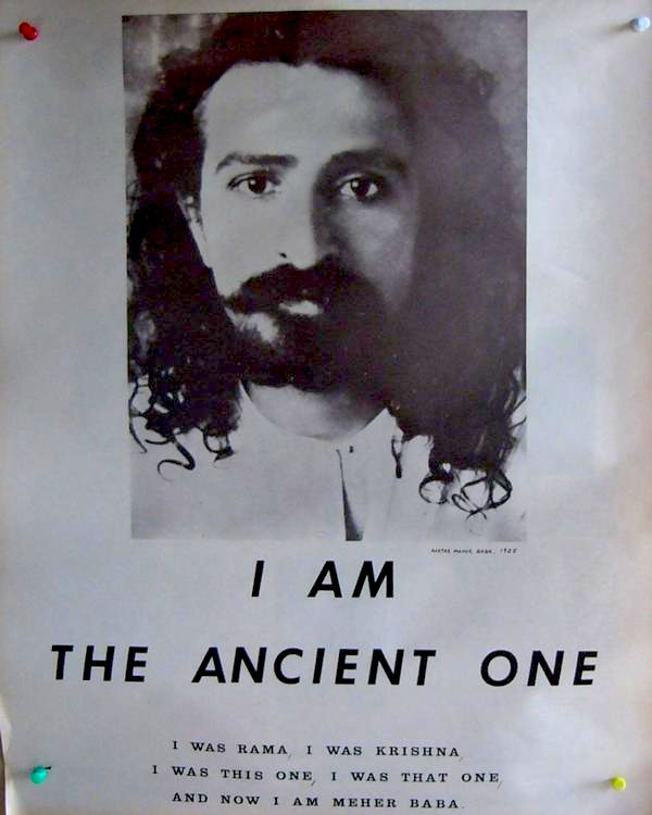 Image that appeared in Meher Baba Ancient One posters and inspiration cards distributed throughout the United States and India starting around 1964. The photo in the image was one taken in India in 1925 and is in the public domain in India.